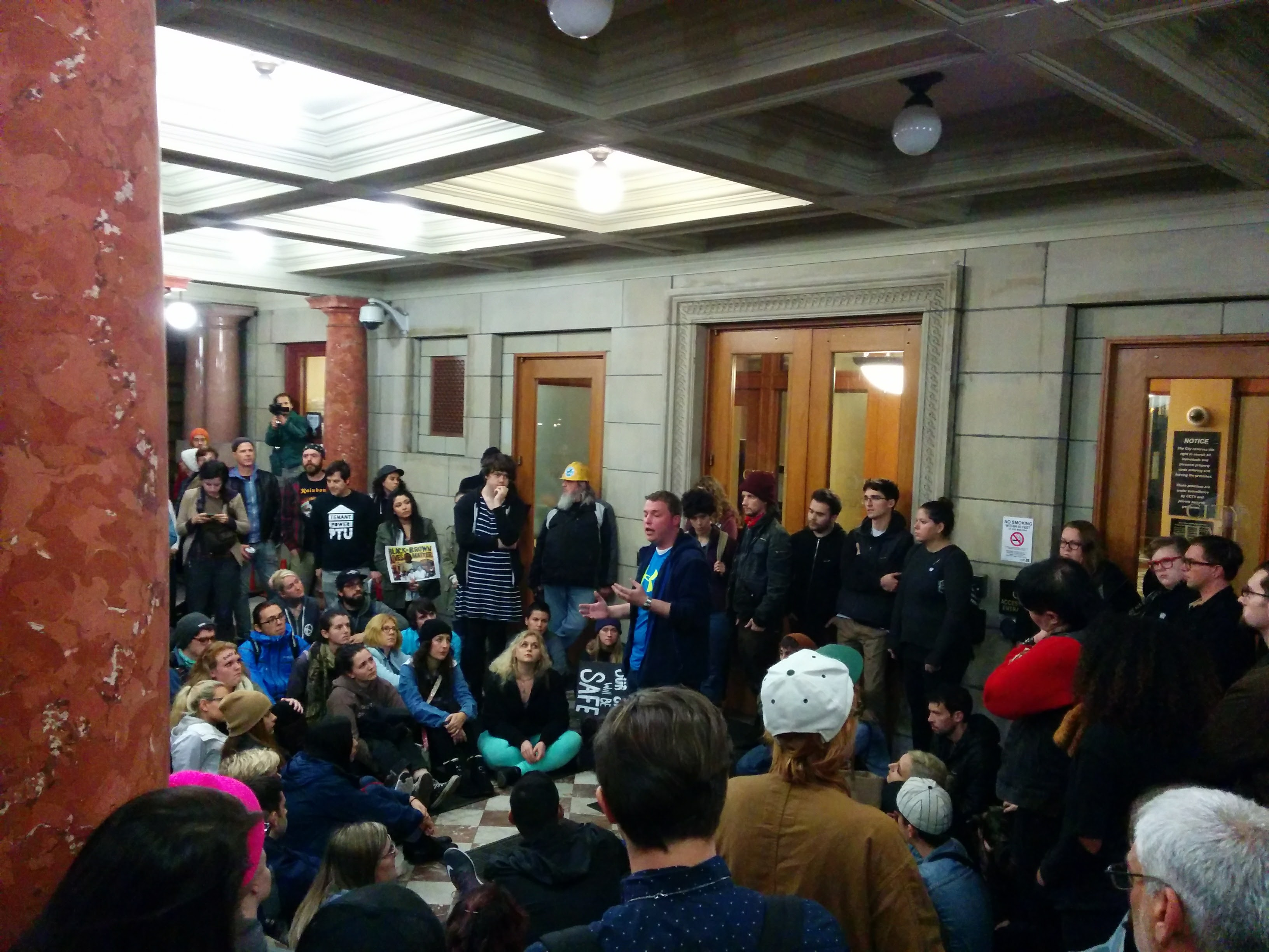 Nov. 11, 2016, Portland Oregon